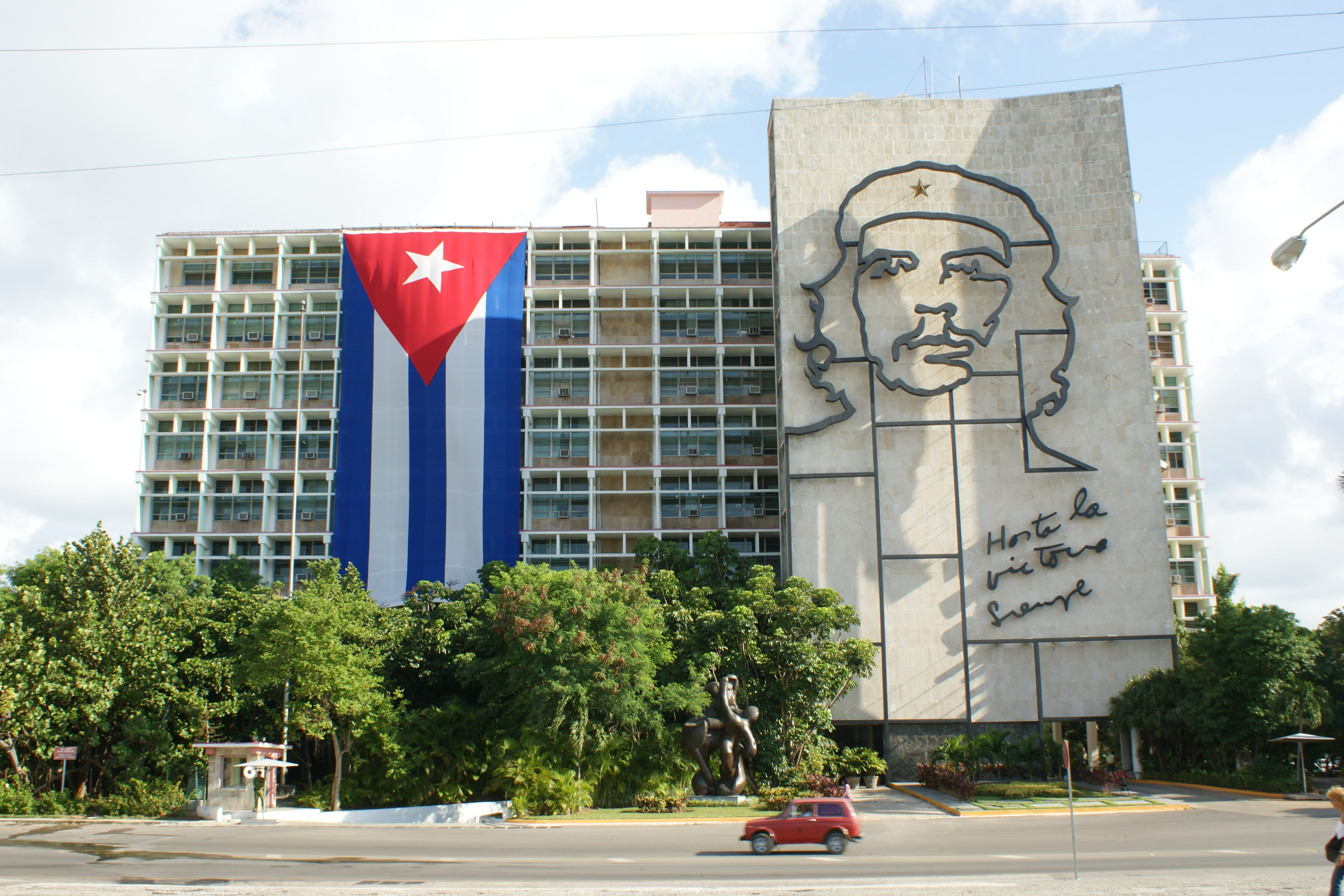 Plaza de la Revolución, Havana. To the left is the Ministry of the Interior building. To the right is an artwork featuring a stylized line-art version of the famous Guerrillero Heroico photo of Che Guevara, captioned with the saying "Hasta la Victoria Siempre" as a caption. The phrase translates to "Until Victory, Forever".